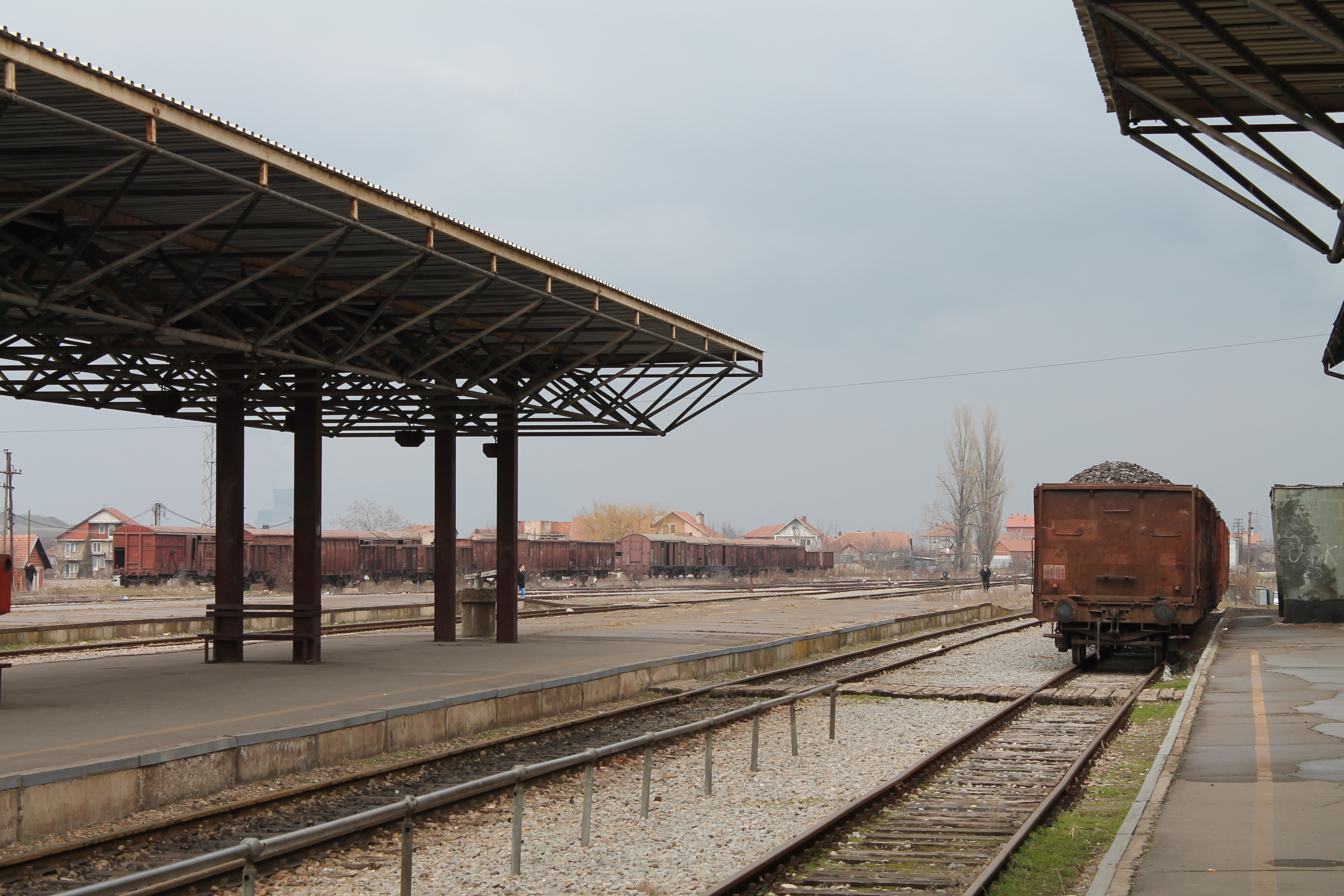 Stacioni Hekurudhor - Fushë Kosova 2